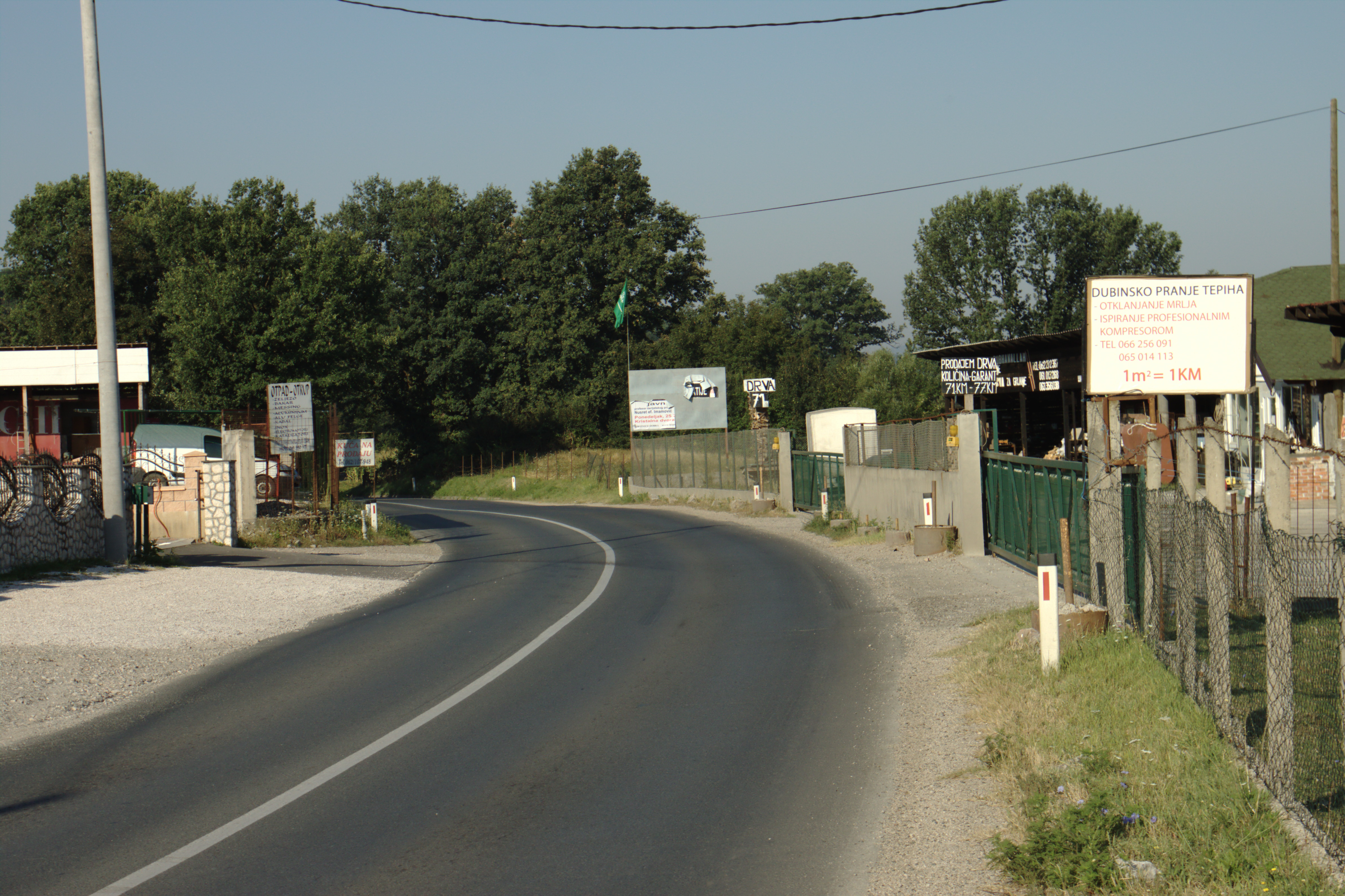 Bosnia and Herzegovina; Road from Tuzla to Sarajevo, Tuzlan side